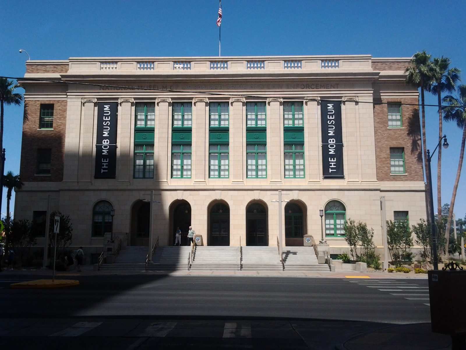 The Mob Museum from third street in downtown Las Vegas.